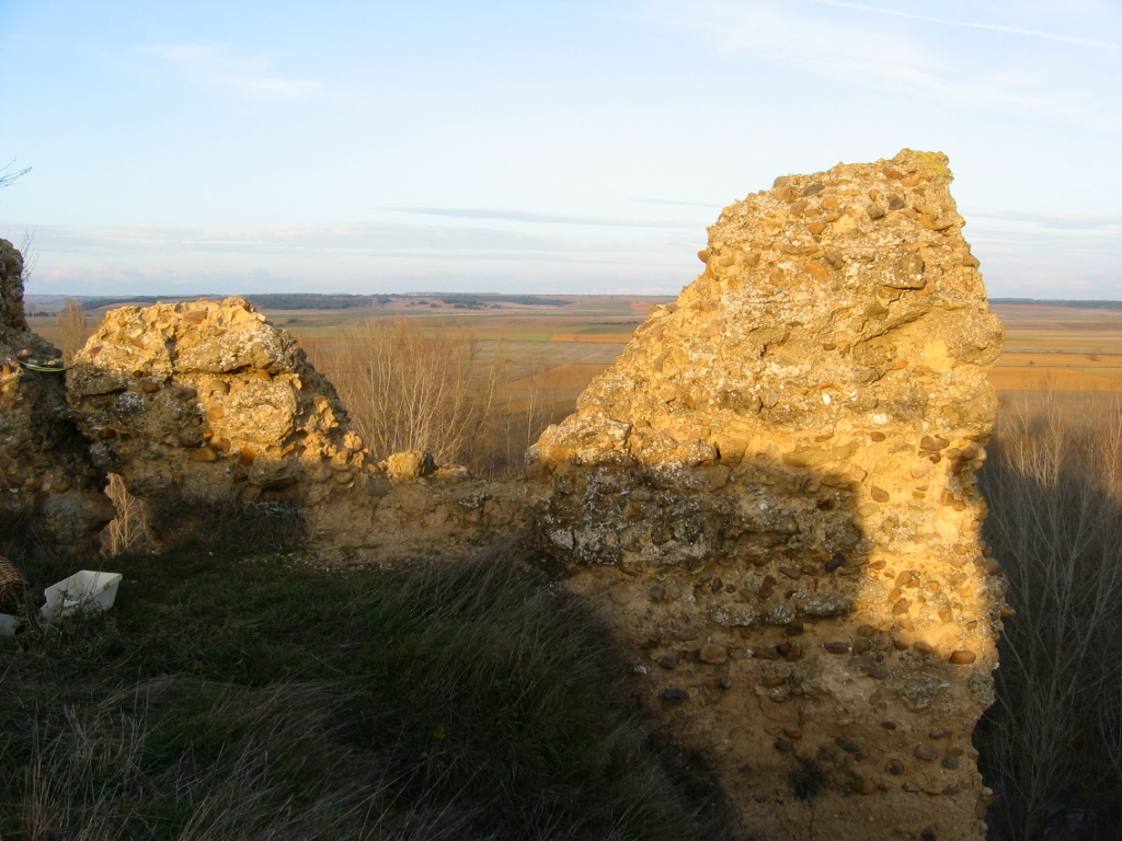 Castle of Castrillo de Villavega (Palencia, Castile and León).